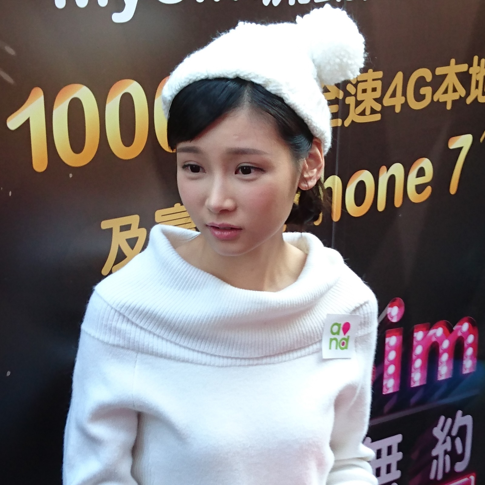 Jessica Kan Shuk Yi